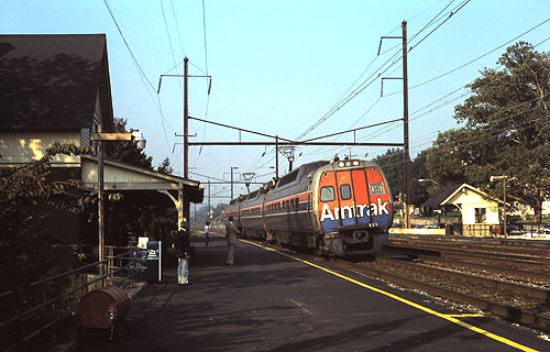 Downingtown station in September 1985